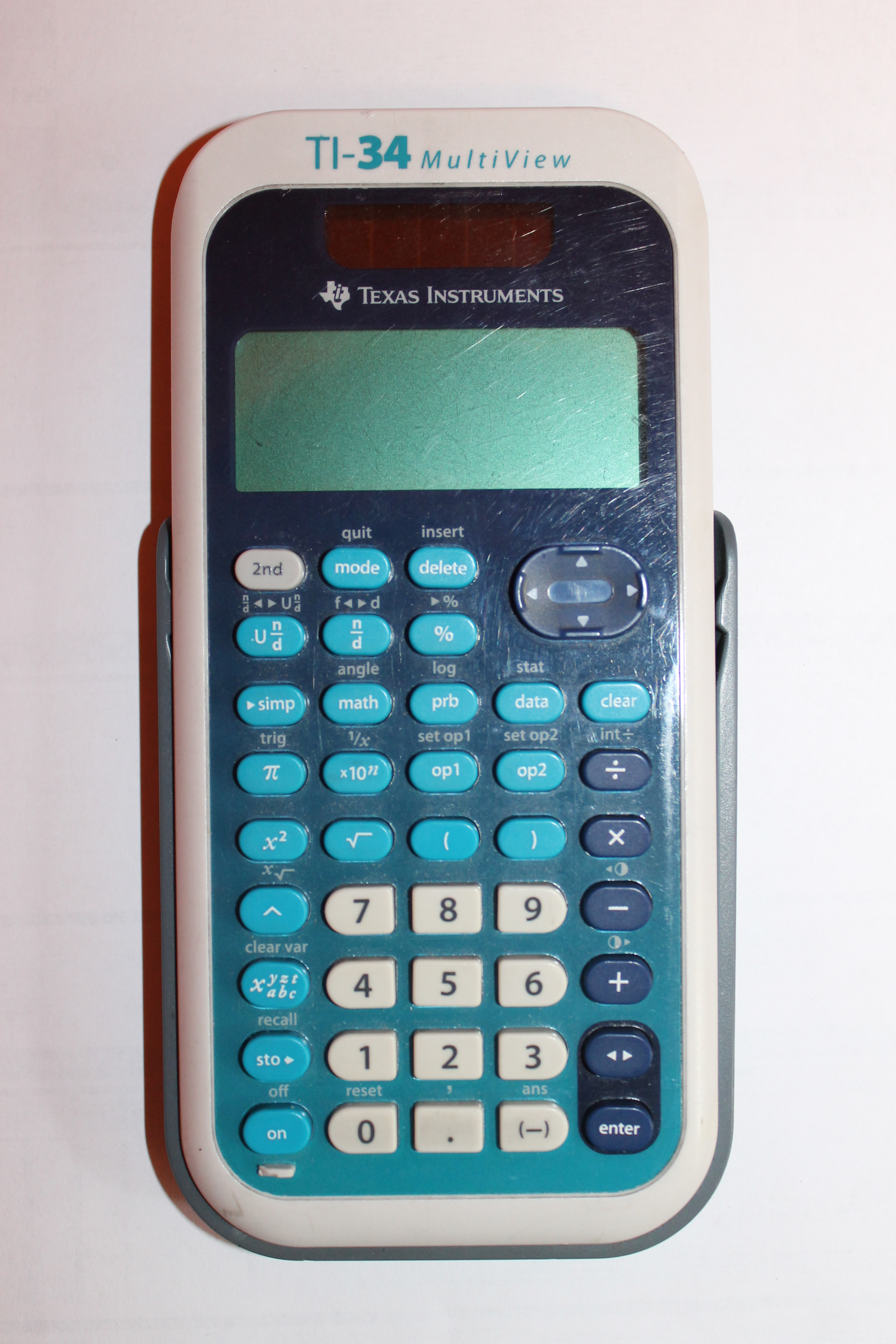 Photo of TI-34 Multiview